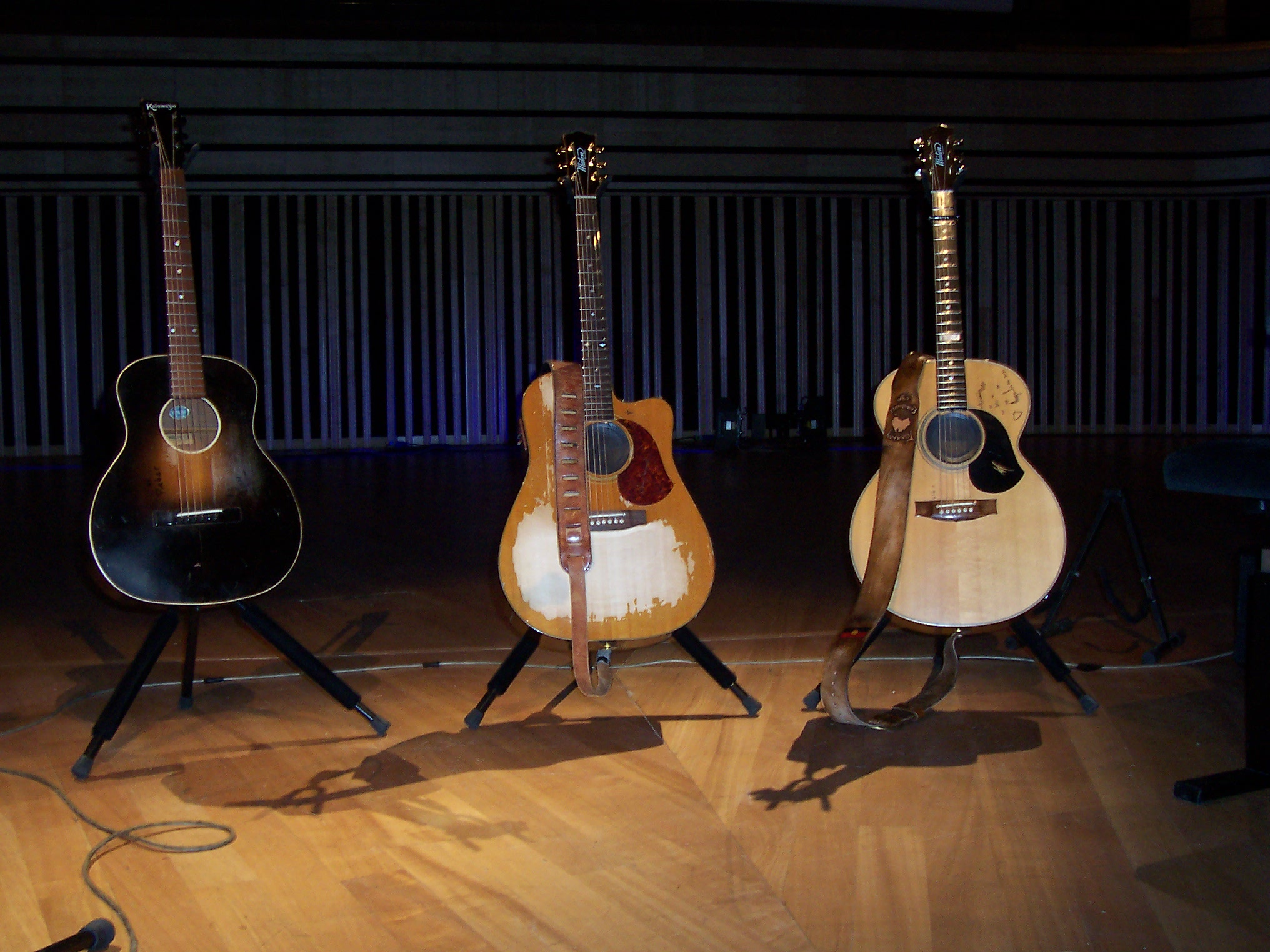 Tommy Emmanuel Australian guitarist, Palace of Arts, Budapest, Hungary, 04.22.2008.